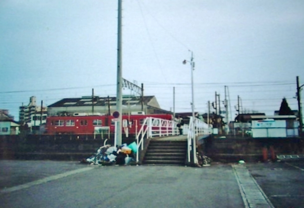 Meitetsu Tagami line Ichinotsubo Station entrance